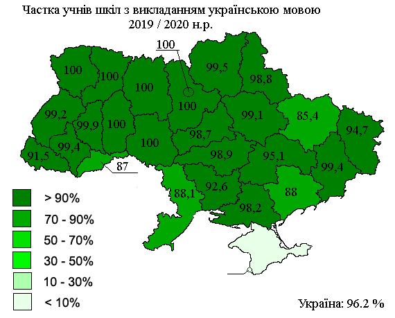 Share of students of schools with ukrainian language of instruction, 2019/2020.